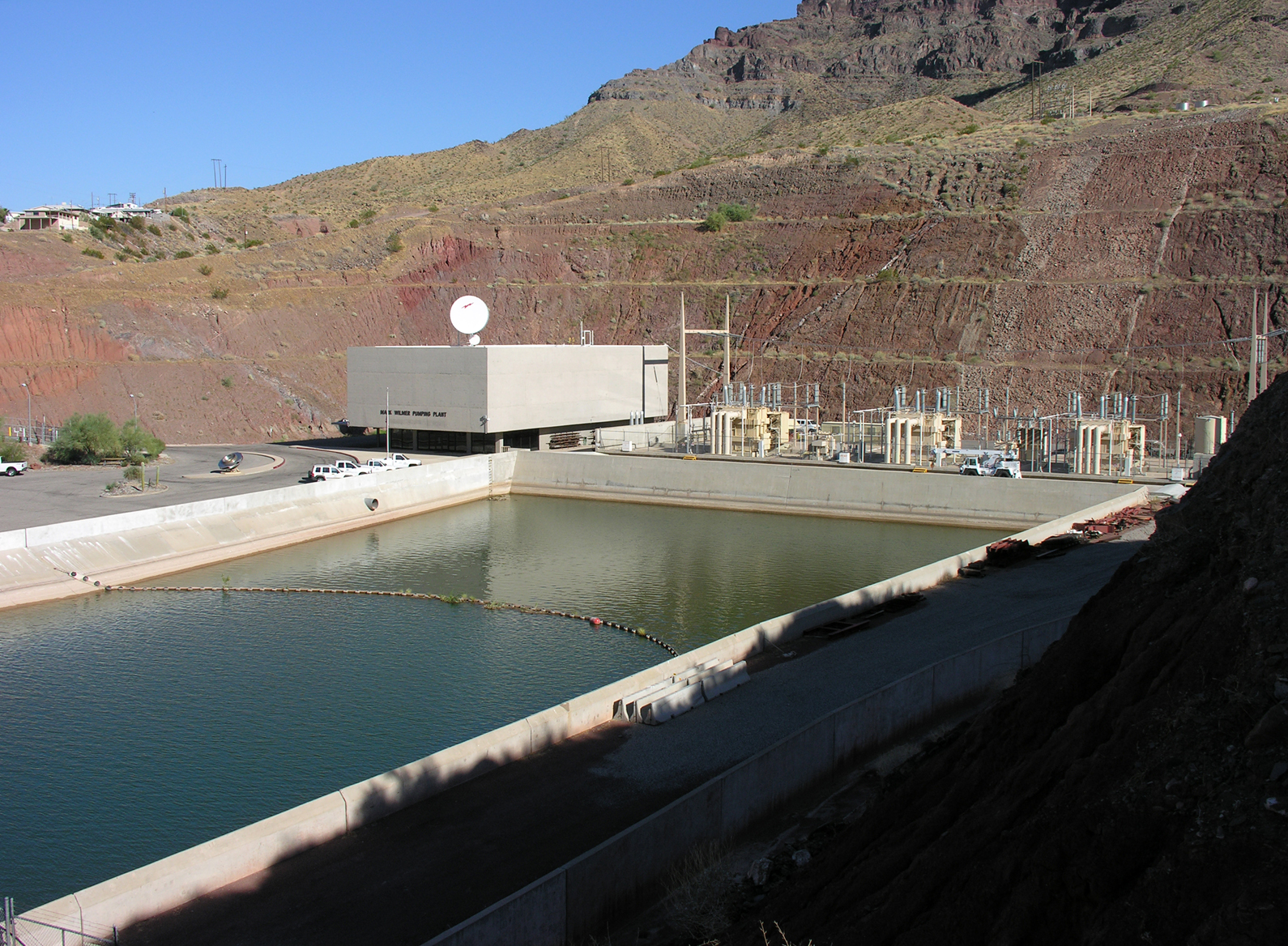 This is a picture of Mark Wilmer Pumping Plant on Lake Havasu, which is on the border between Arizona and California, near Lake Havasu City, Arizona. The lake is formed by Parker Dam on the Colorado River. The pumping plant pumps water uphill for the Central Arizona Project Aqueduct. The picture was taken by me on September 16, 2005. I give permission for the picture to be used with attribution under the GFDL and Creative Commons.